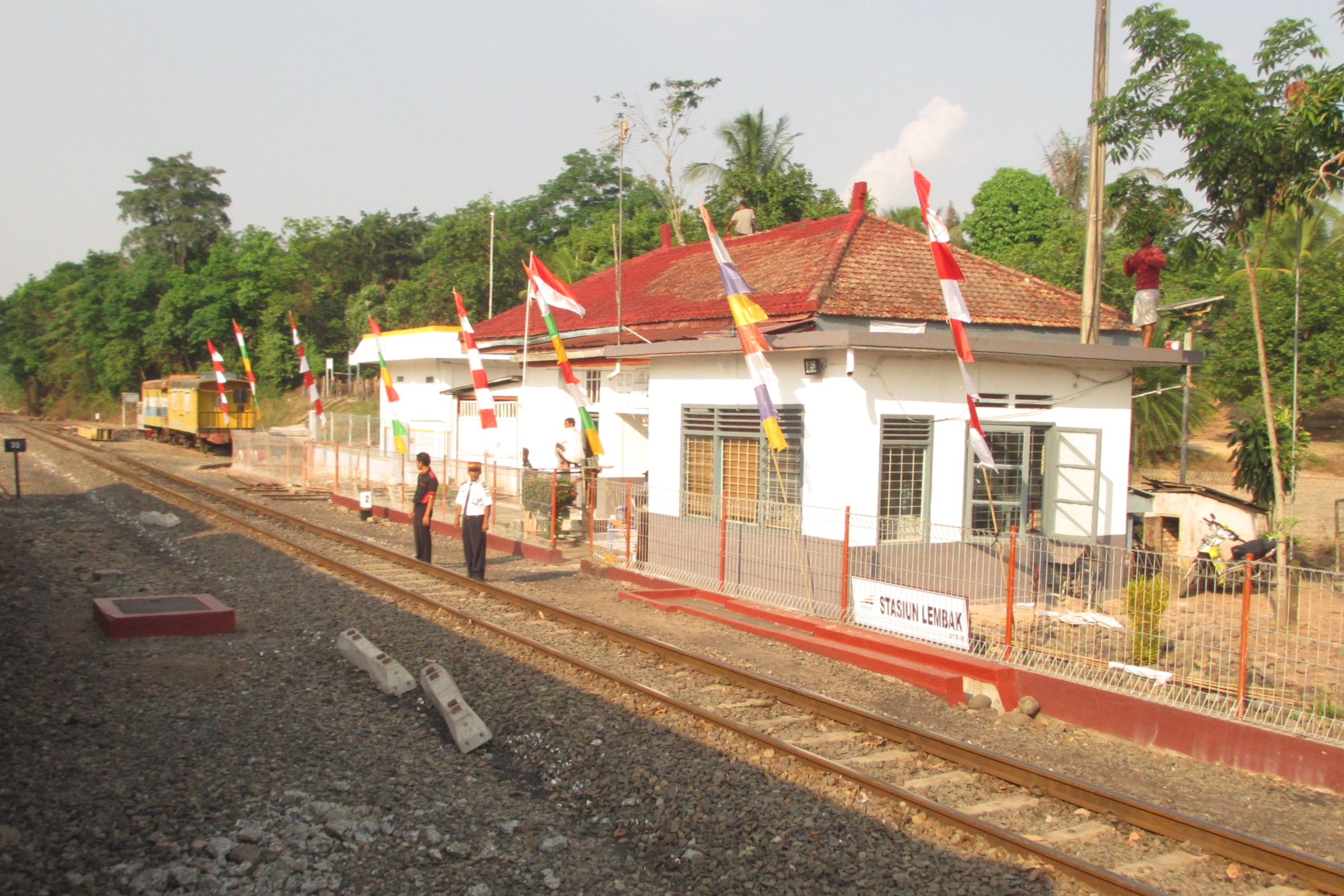 Lembak Railway Station.